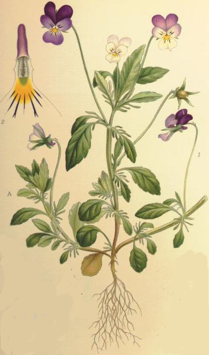 Wild pansy (Viola tricolor)